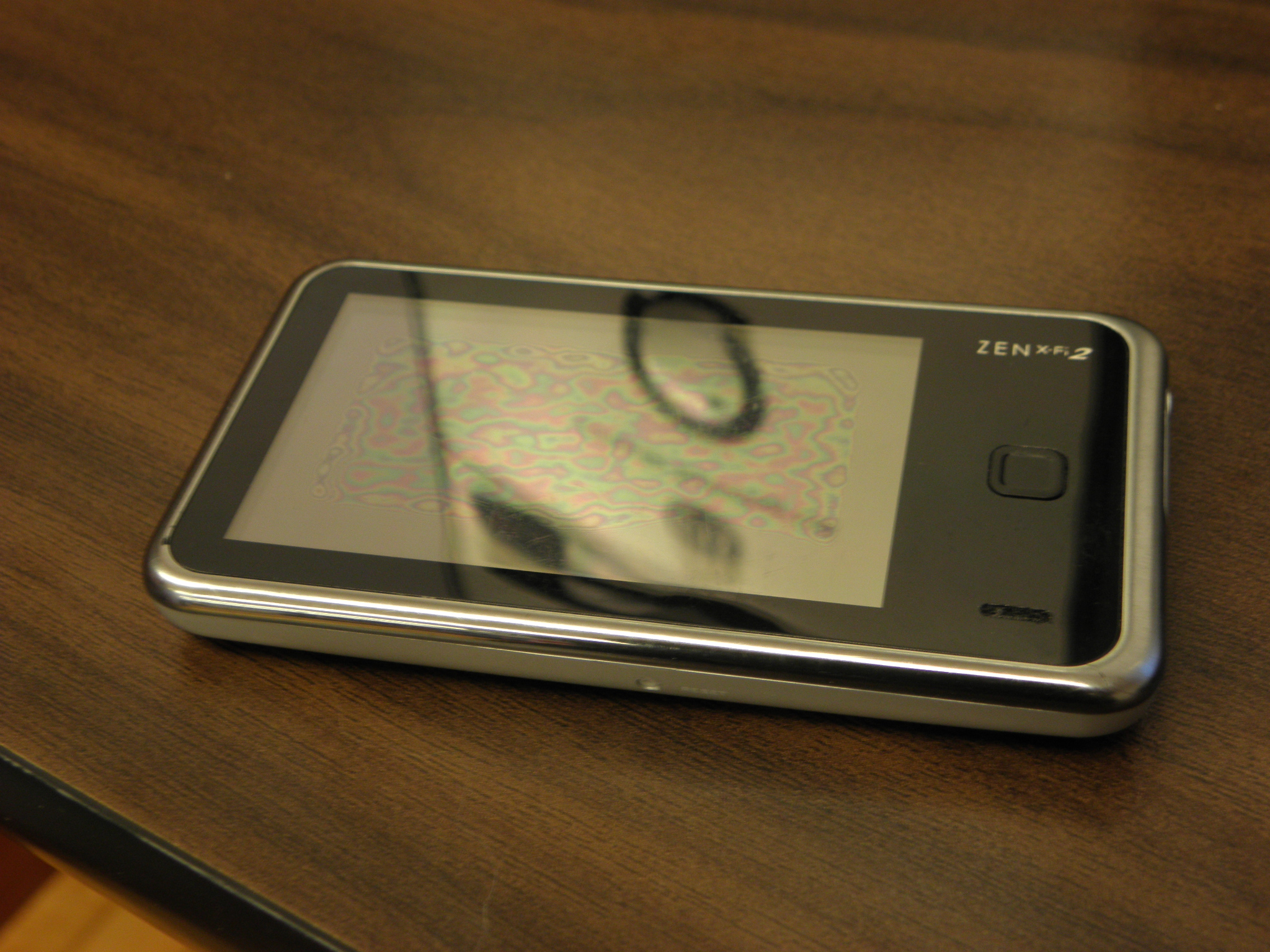 A Creative Zen X-Fi 2 MP3 Player